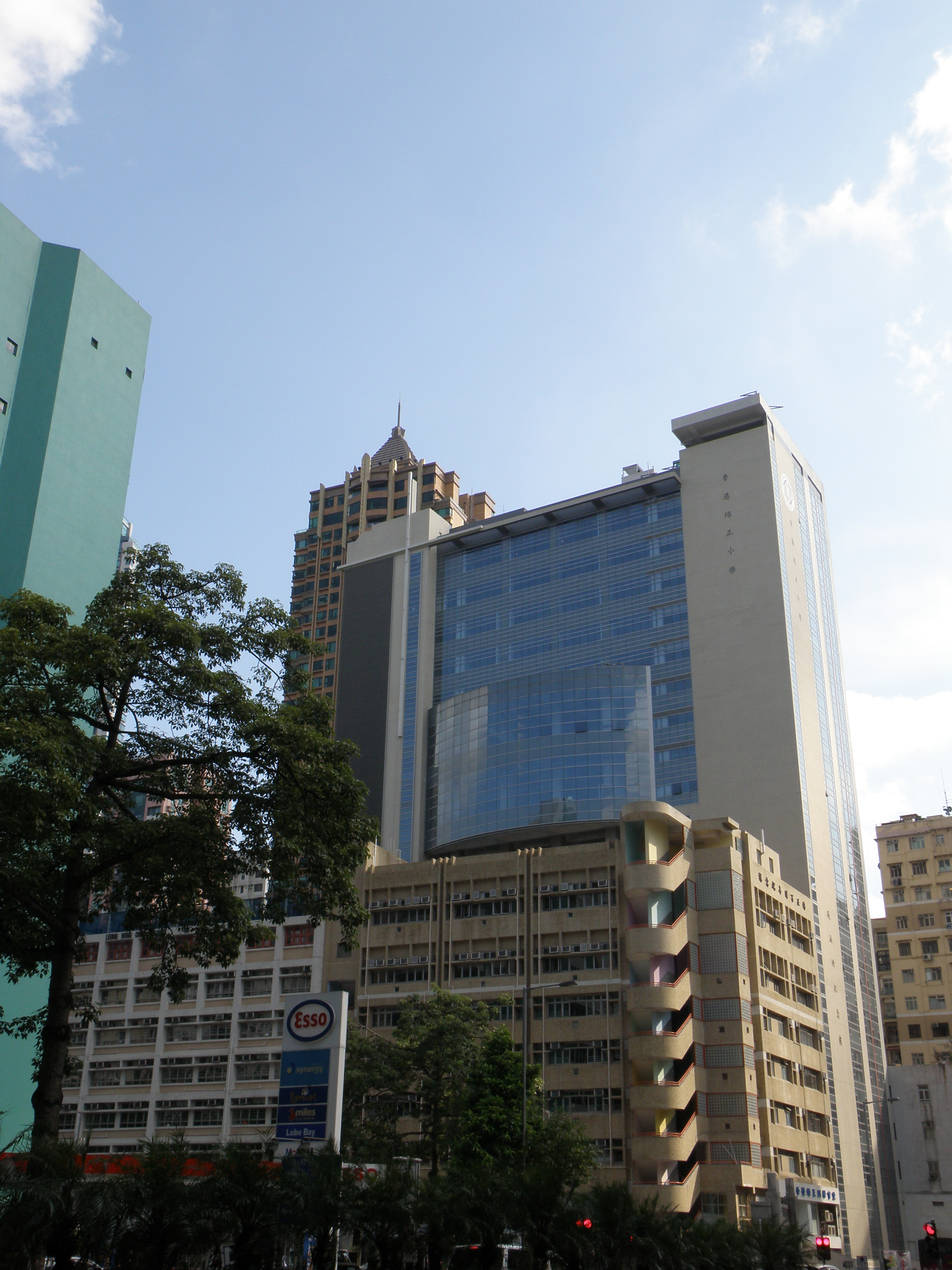 Pui Ching Academy in Ho Man Tin, Hong Kong.